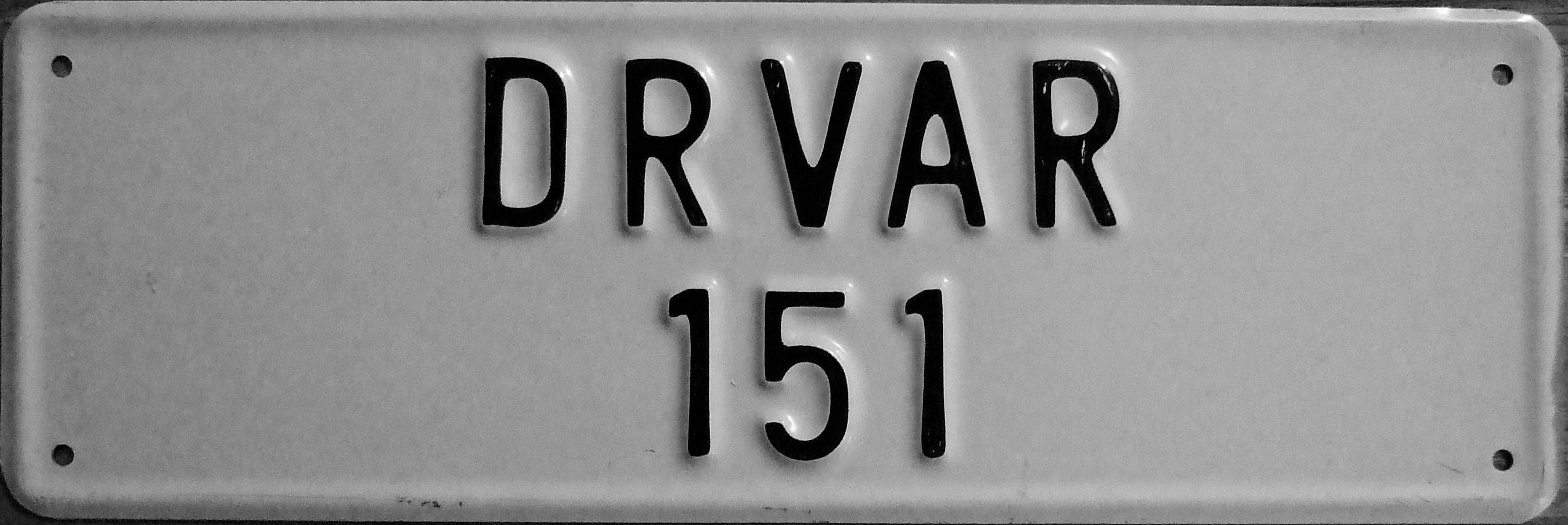 Road construction and maintenance working machine license plate from the city of Drvar in the former Yugoslavian state of Bosnia-Herzogovina. Drvar is in the western part of the nation near the Croatian border.